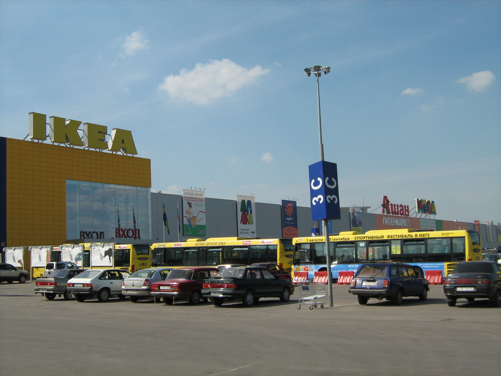 The "Mega" shopping mall near the village of Fedyakovo, Kstovsky district, outside Nizhny Novgorod.